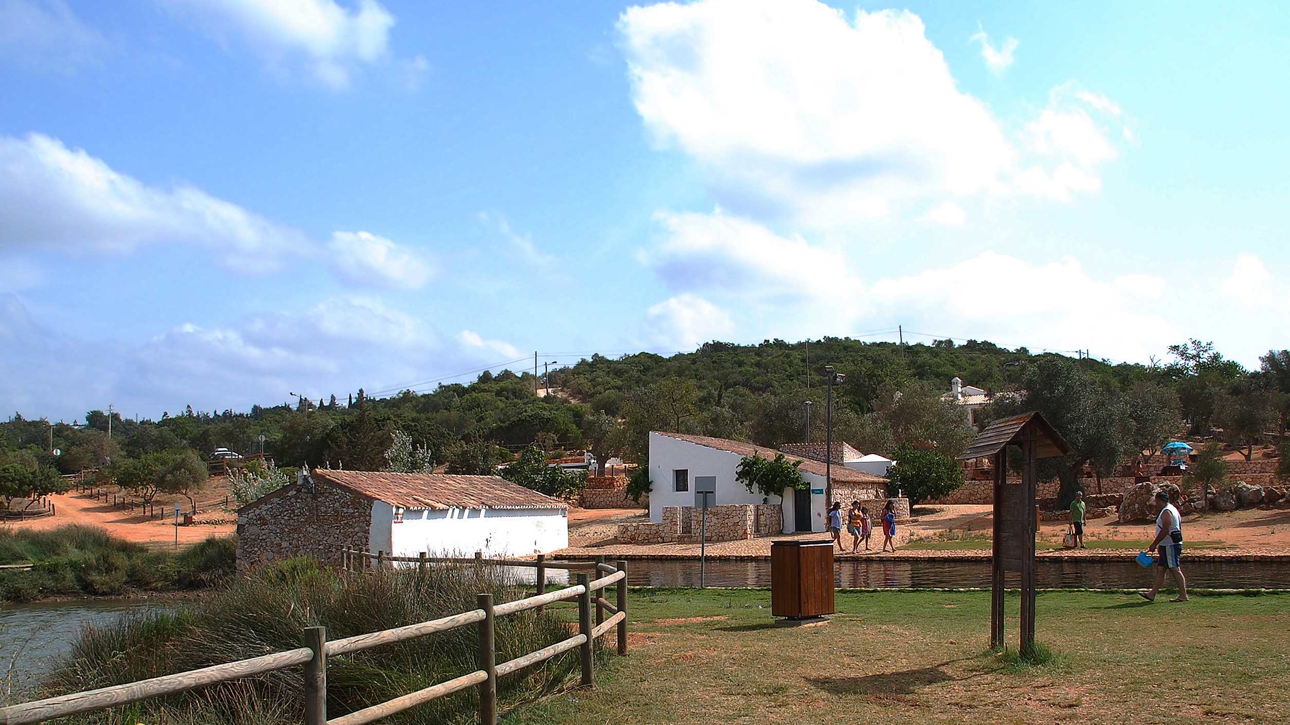 The Parque Municipal das Fontes (the Municipal Park of the Springs), or Fontes de Estômbar (The Estômbar Springs), is a park surrounding a major spring situated on the left bank of the estuary of the Rio Arade, north of the town of Estômbar, in the concelho of Lagoa (Algarve).